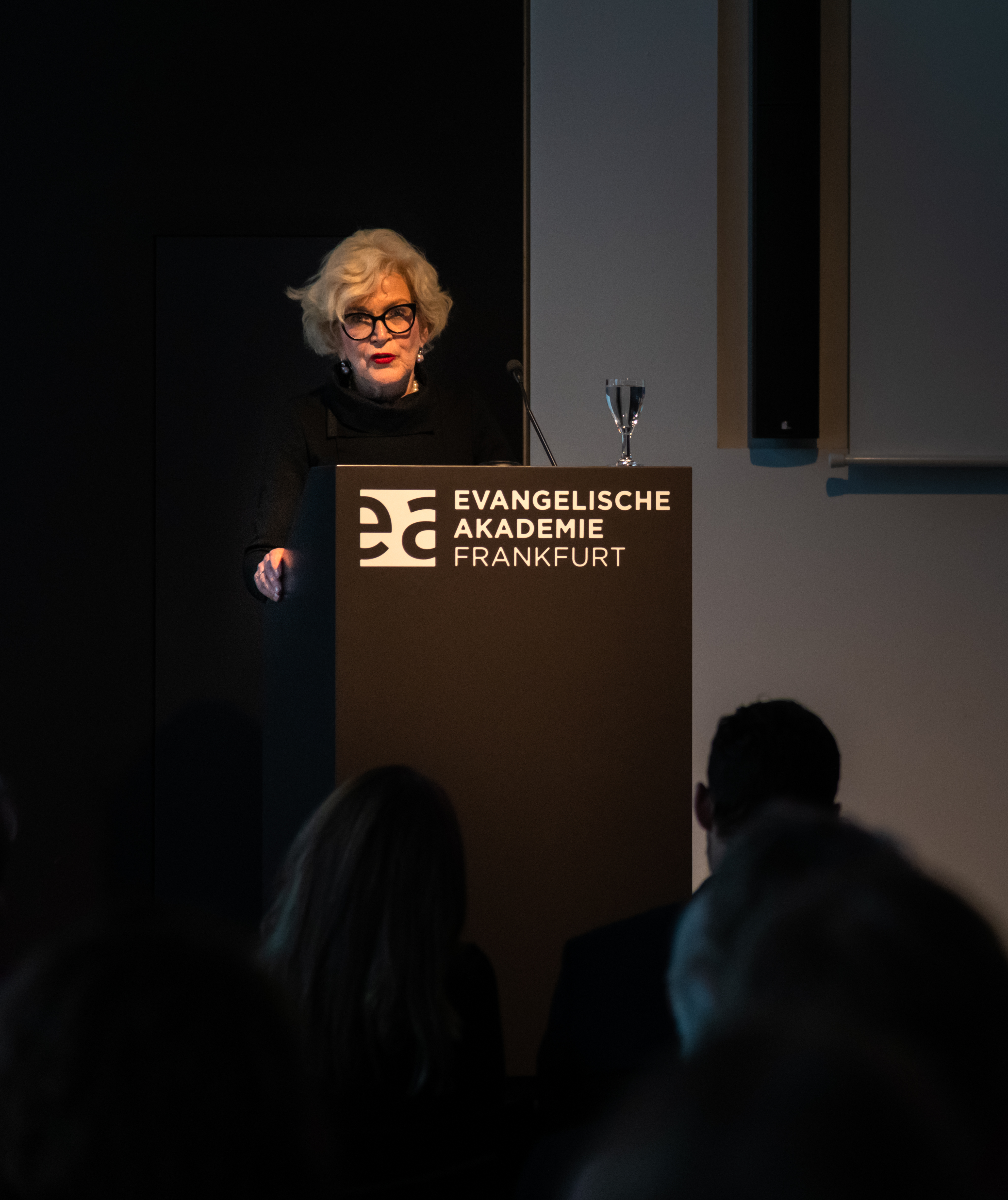 Barbara Ettinger-Brinckmann (*1950), german architect and president of the Federal Chamber of German Architects, giving a speak in the Evangelical Academy in Frankfurt am Main (December 2019).